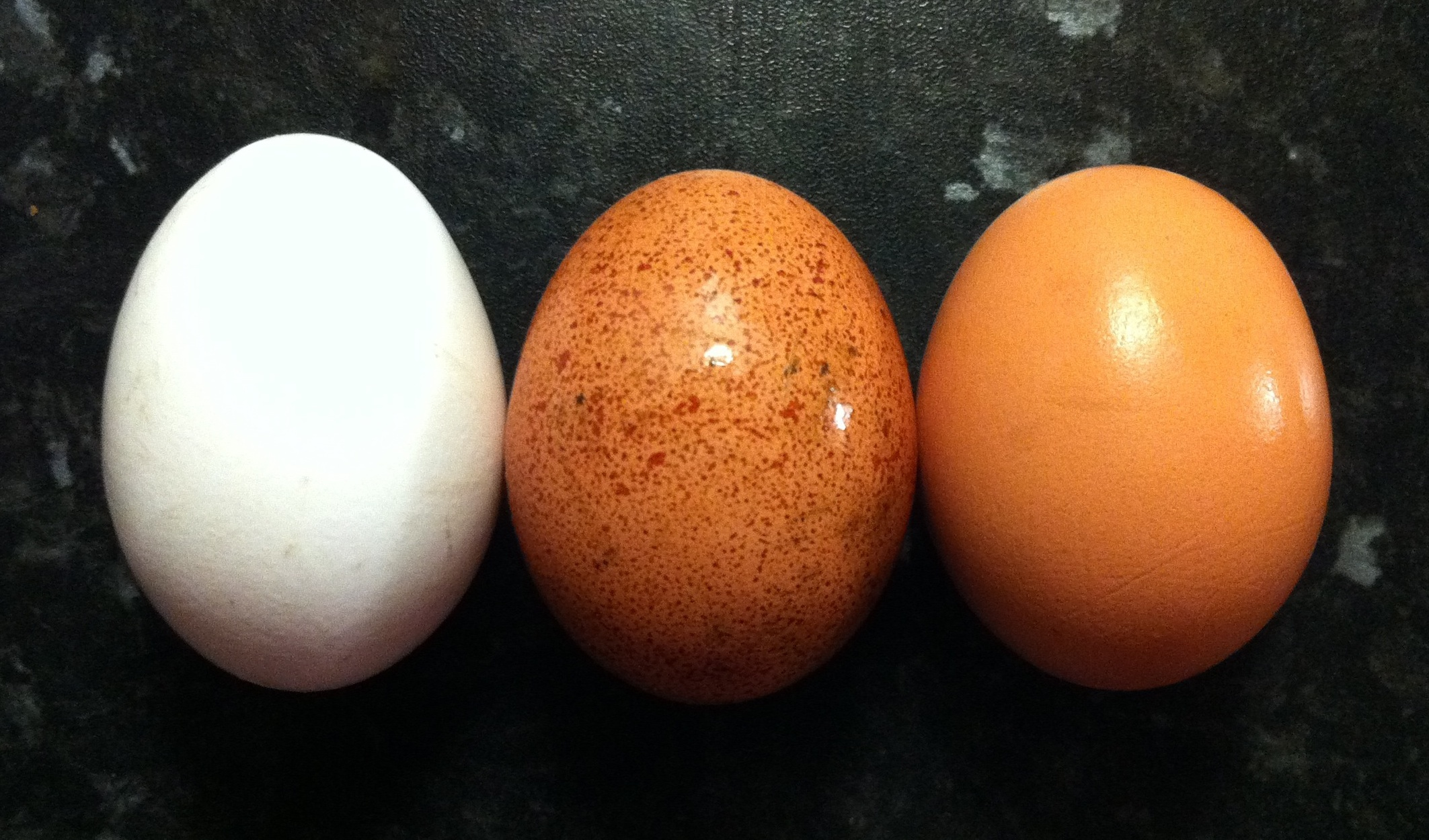 Three chicken eggs of contrasting colours. From left to right WHITE (from a white leghorn hen), RED (speckled)(from a Marans hen), and TINTED (from a Rhode Island Red hen).